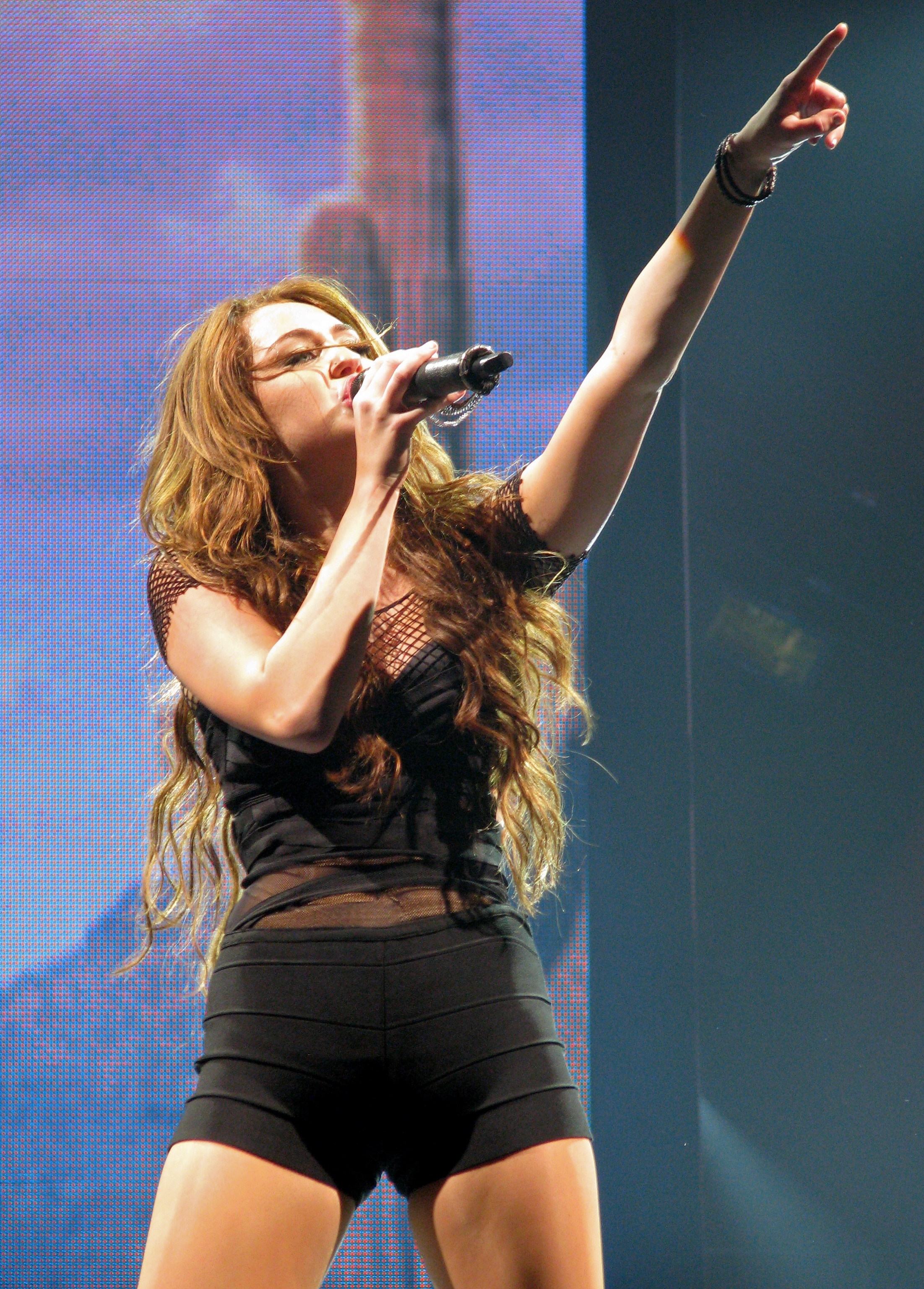 A teen singing.